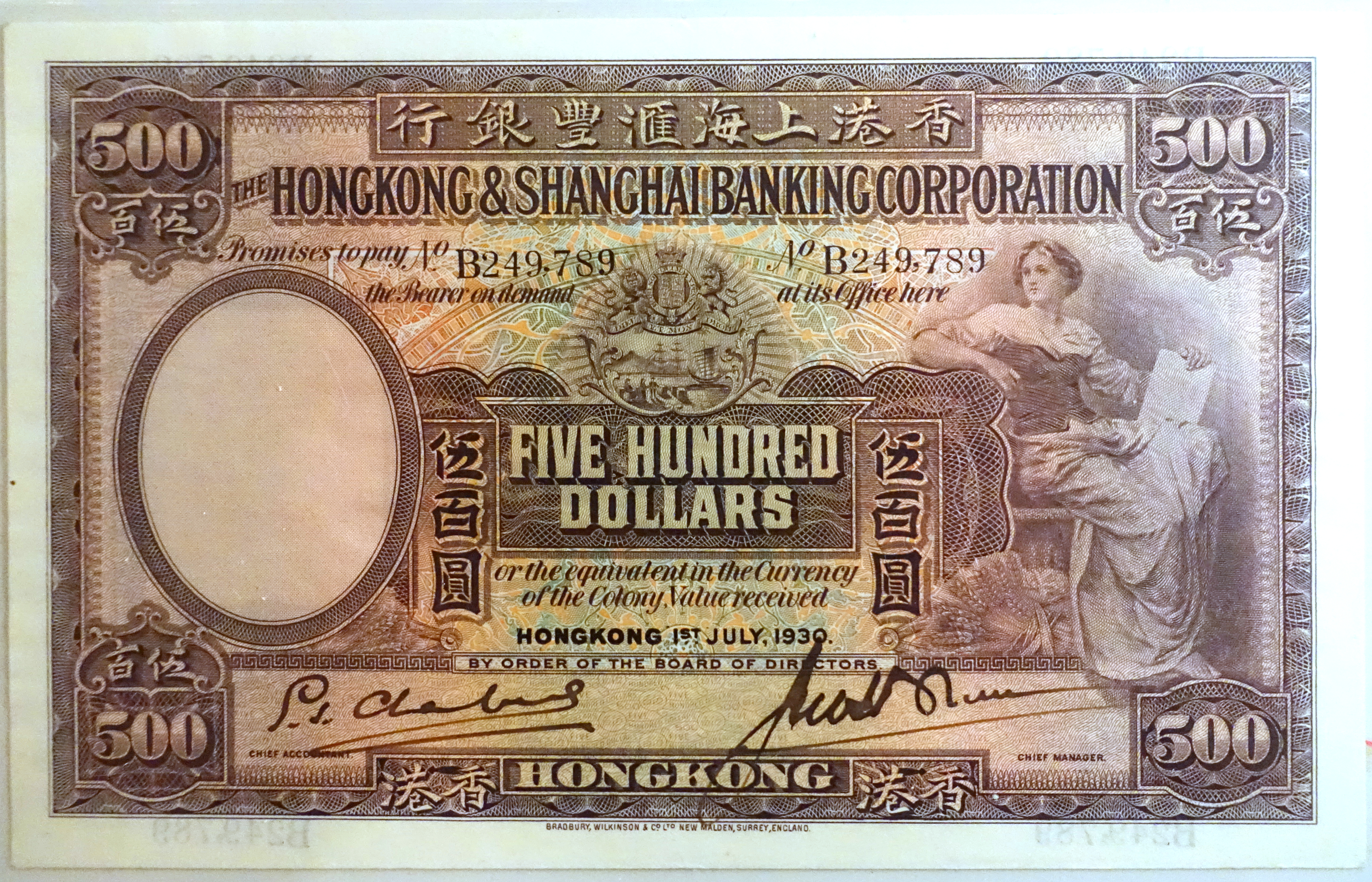 Exhibit in the Hong Kong Museum of History, Hong Kong.